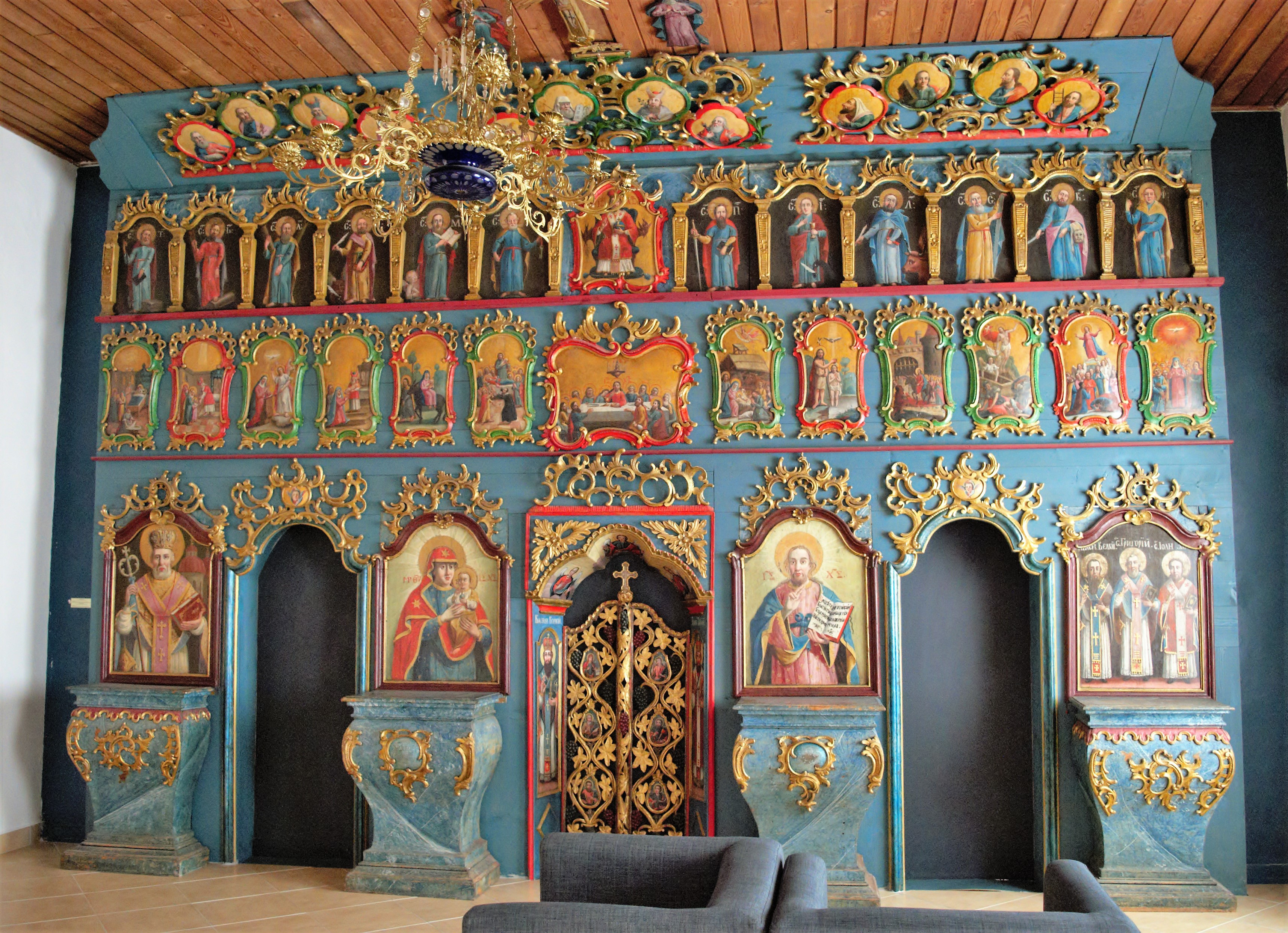 Iconostasis form the Church of Three Hierarchs at Zboj. Dated: around 1766. Now at the Šariš Museum Bardejov.